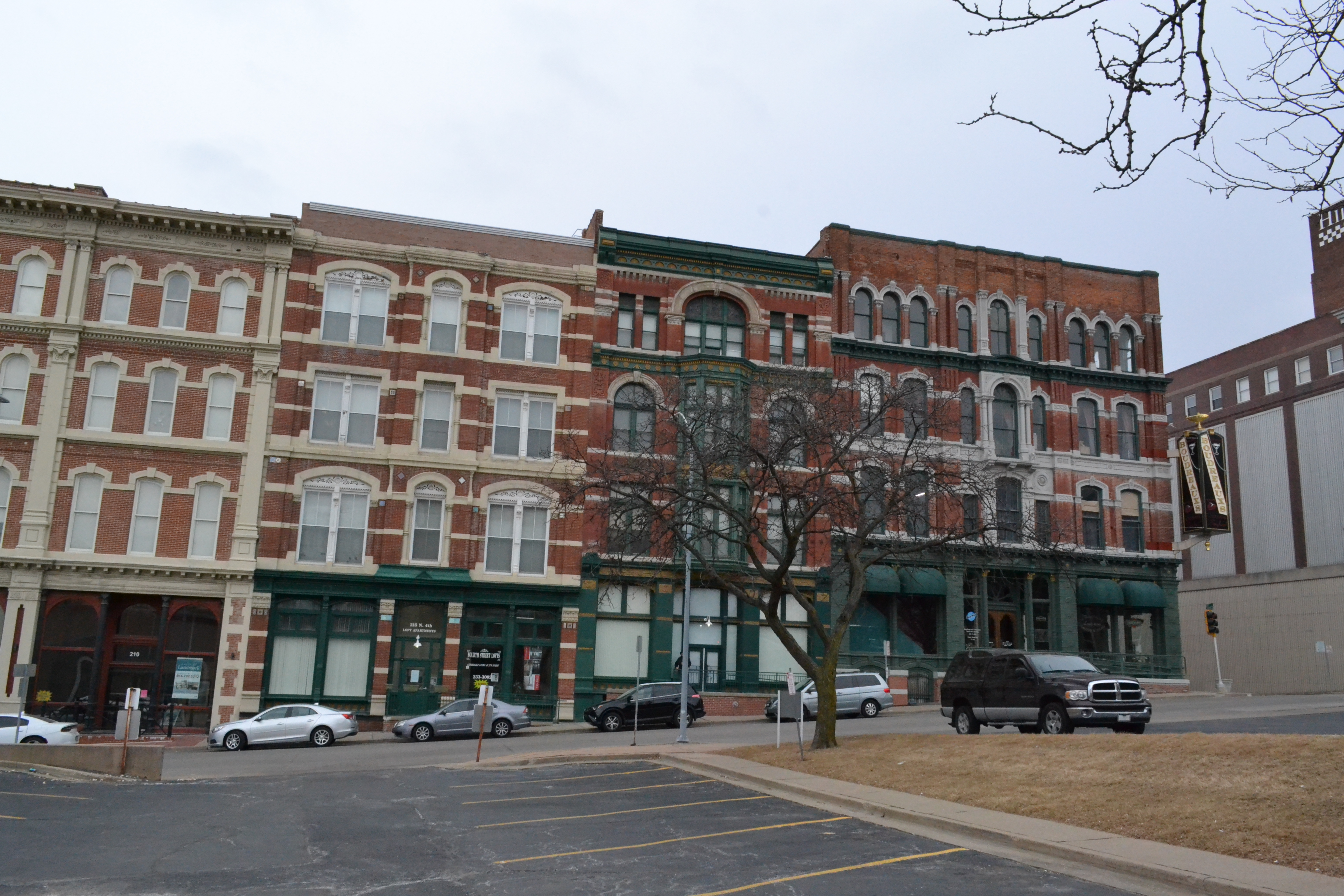 Northern half of Wholesale Row in St Joseph, Missouri. Part of the Wholesale Row Historic District.